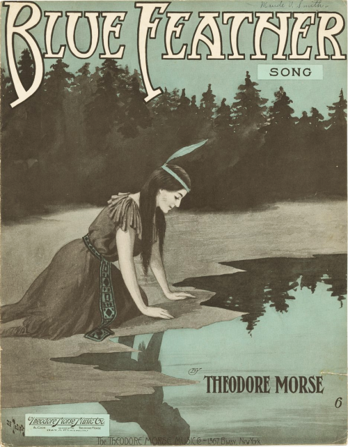 sheet music cover